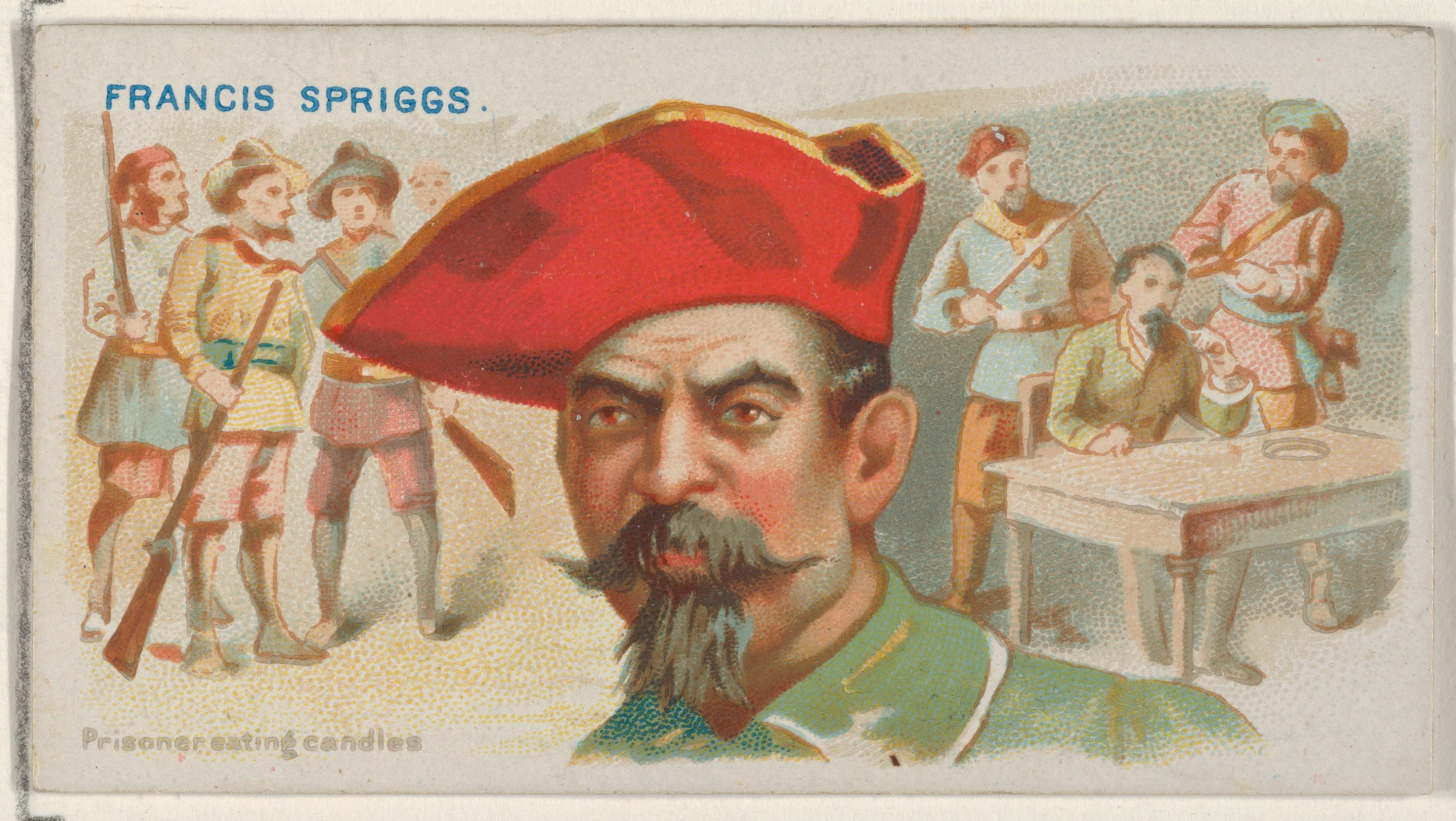 Print; Prints